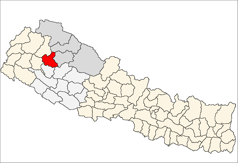 FrenchCarte de localisation dudistrict de Kalikot(wp-FR),au Népal (wp-FR).EnglishLocation map ofKalikot District(wp-EN),in Nepal (wp-EN).